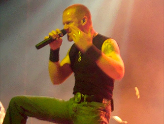 Matt Barlow during the show at Tyrol in Stockholm, Sweden.